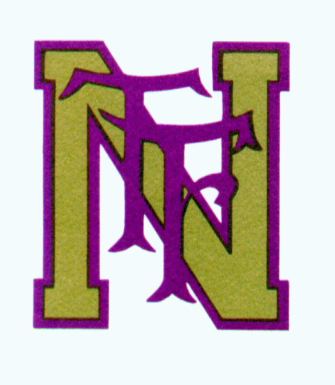 This is a logo owned by Thornton Fractional High School District 215 for Thornton Fractional North High School. Further details: The logo depicts a large Gold "N" (With a Purple outline, with an interlocked Purple "T" & "F" superimposed over the "N".